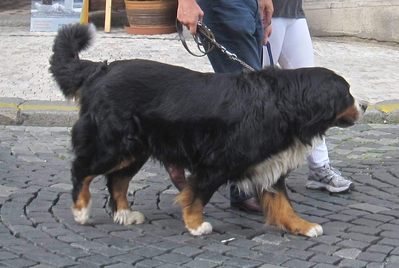 An adult tri-colored Bernese Mountain Dog